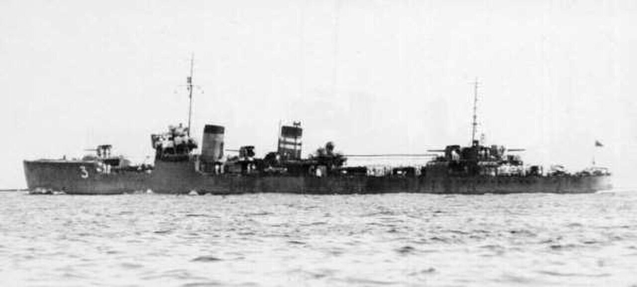 Imperial Japanese Navy destroyer Asakaze, Kamikaze-class. Her name was "DD No.3" at this time.